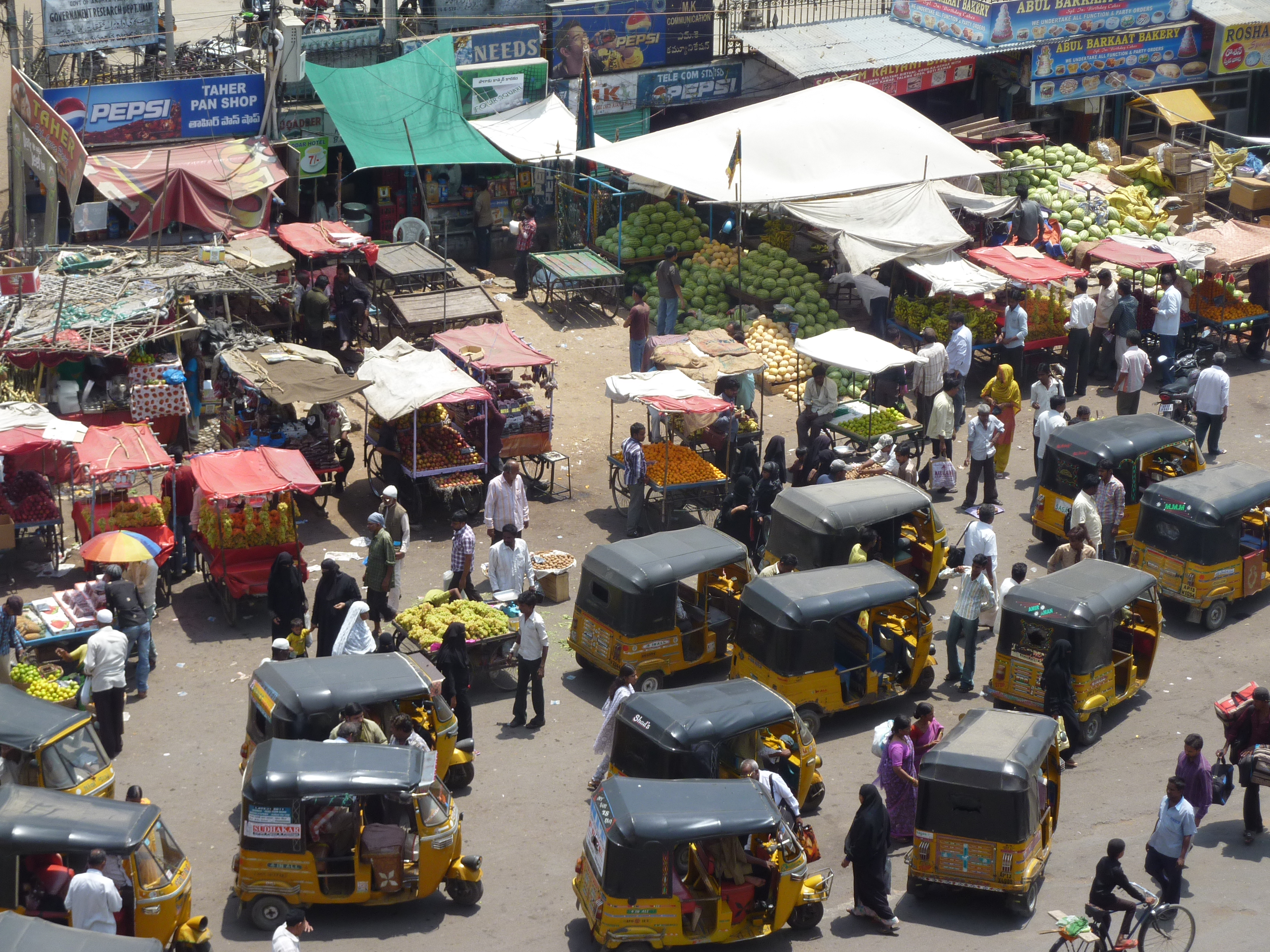 Picture taken from the Charminar, of a street market in Hyderabad.